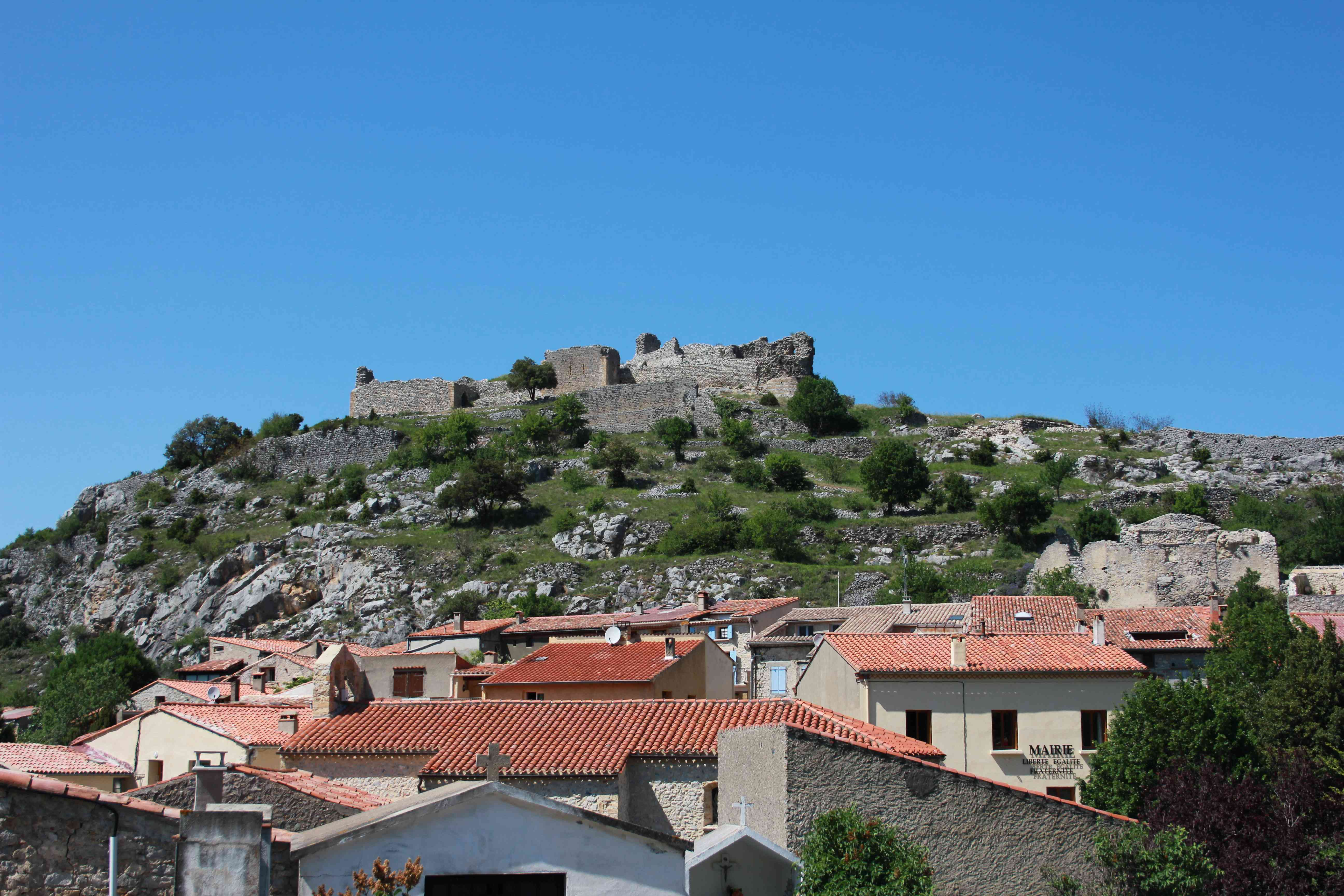 Castle ruin St. Pierre, France (Aude)